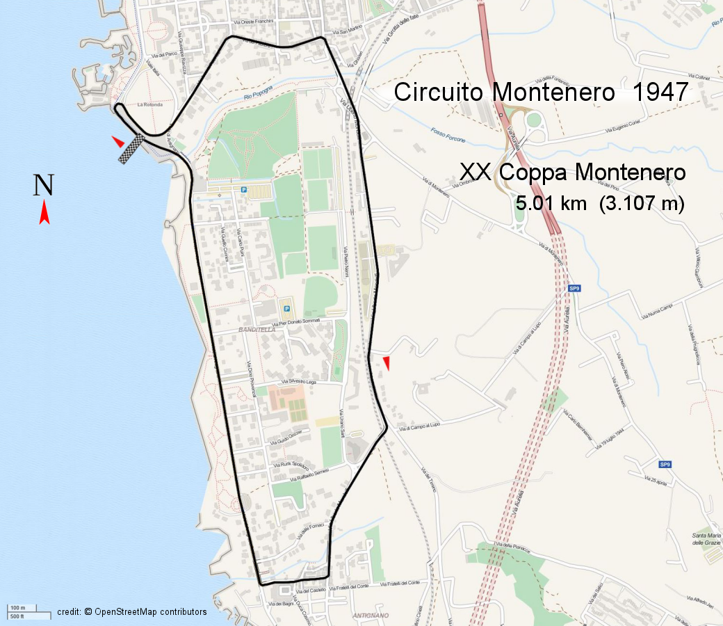 Street Map: Circuito Montenero 1947